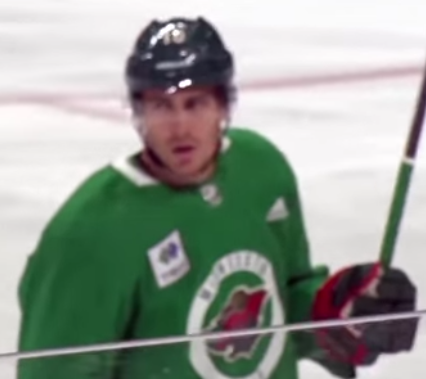 Minnesota Wild preseason practice